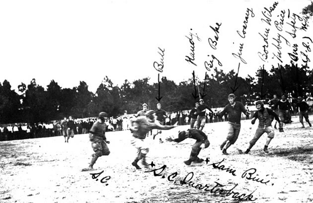 Florida vs. South Carolina football game, some players labeled